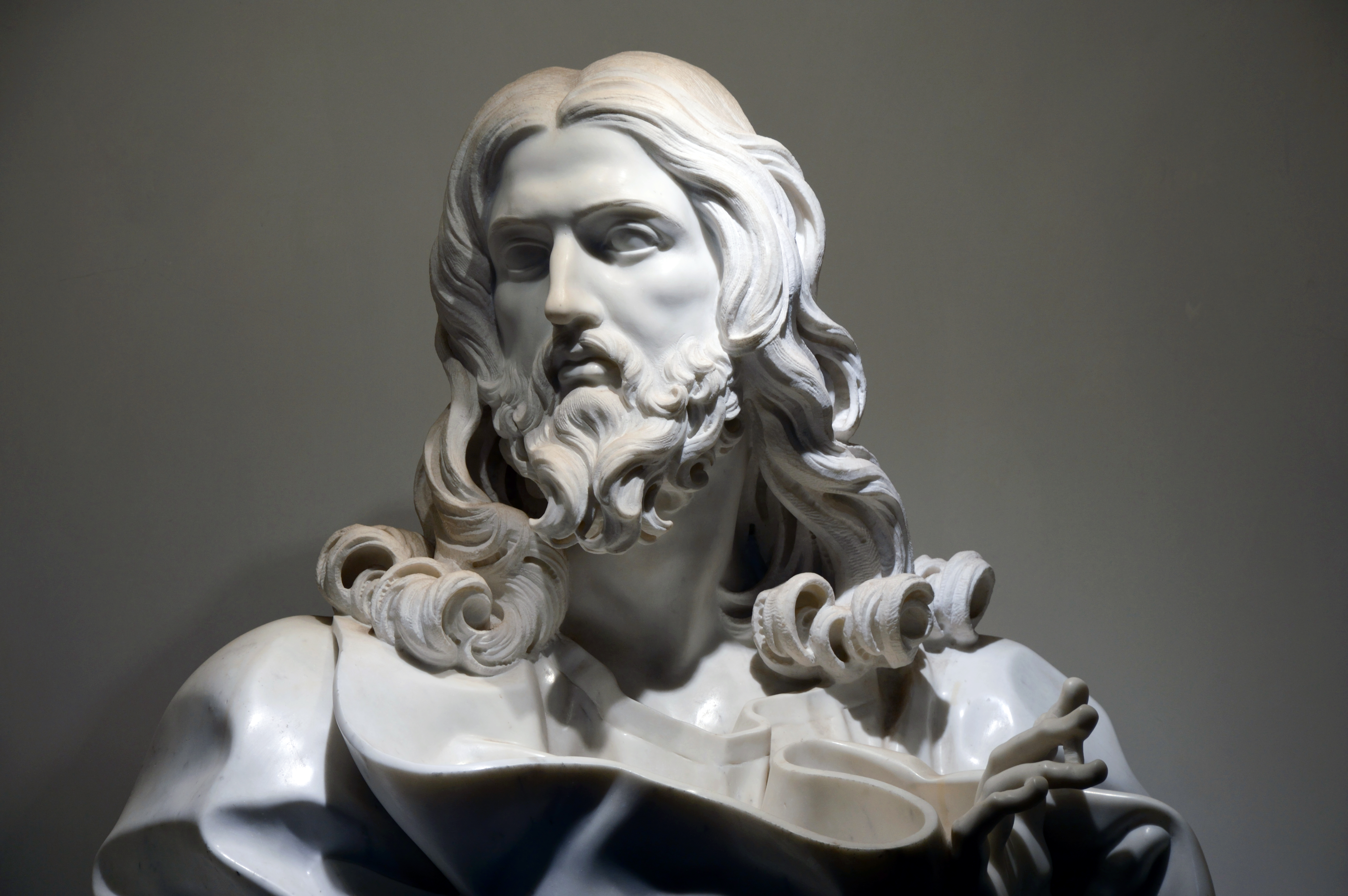 Jesus Christ of Gian Lorenzo Bernini in San Sebastiano fuori le mura (Rome)